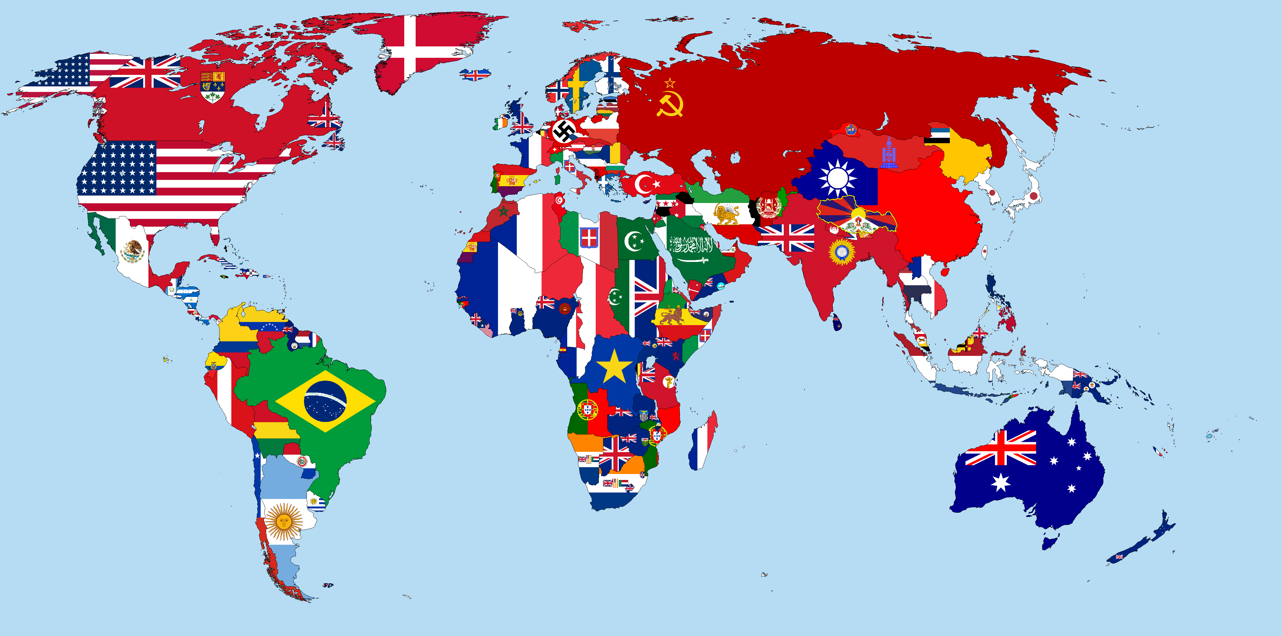 Map of the world in 1935 Flag maps of the world for historical use 1789 · 1900 · 1908 · 1914 · 1930 · 1935 · 1938 · 1942 · 1965 · 1970 · 1972 · 1974 · 1989 · 1990 · 1991 · 1992 · 1993 · 2010 · 2012 · 2013 · 2015 · 2016 · 2017 · 2018 (this template: • view • discuss )